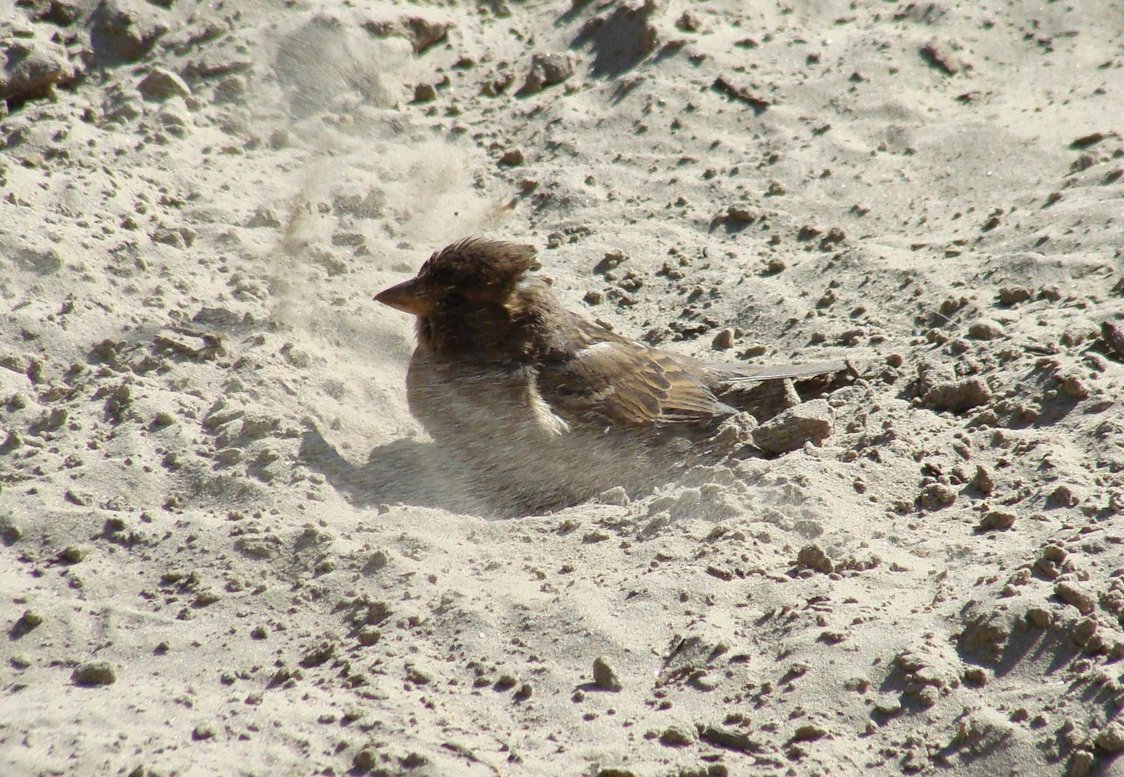 A female House Sparrow sandbathing